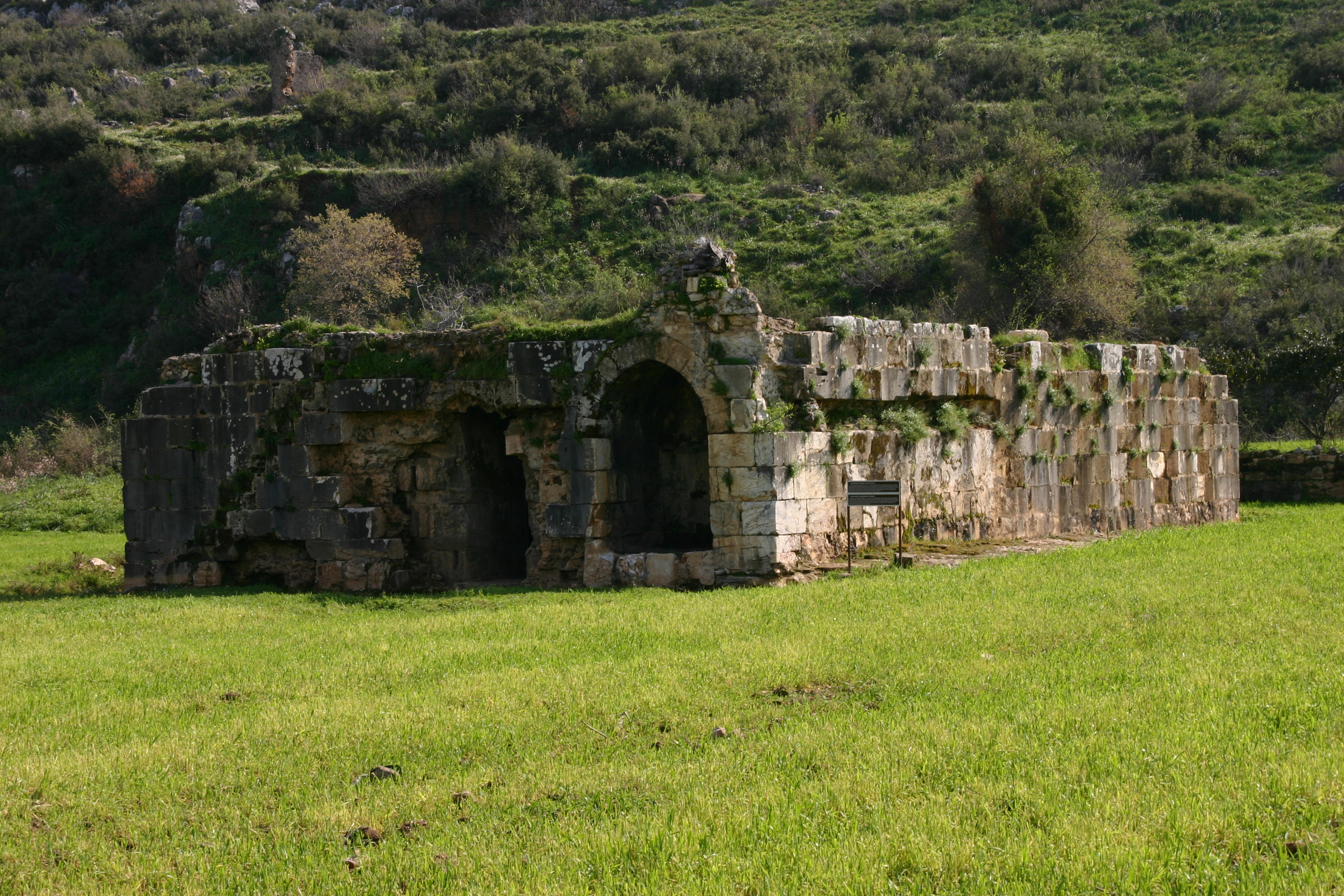 The "cenotaph of Traian"